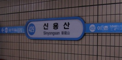 Sinyongsan Station